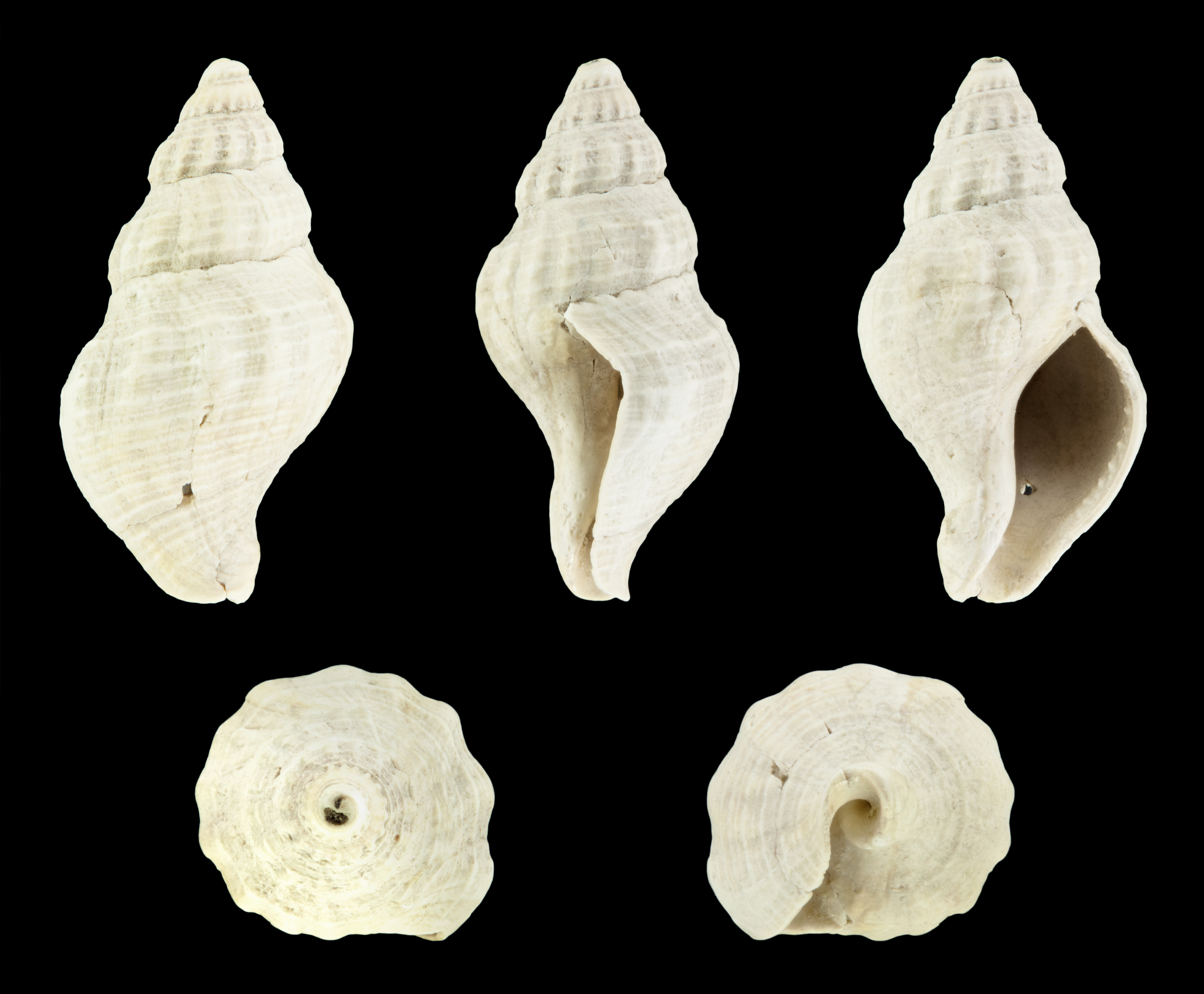 Buccinum labiatum (Sowerby 1823); Length 1.6 cm; Headon Hill Formation, Uppermost Eocene; Colwell Bay, Isle of Wight, Great Britain; Shell of own collection, therefore not geocoded.